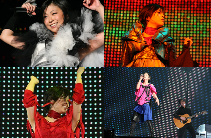 These are the four outfits that Utada Hikaru wore during her Utada United 2006 tour.